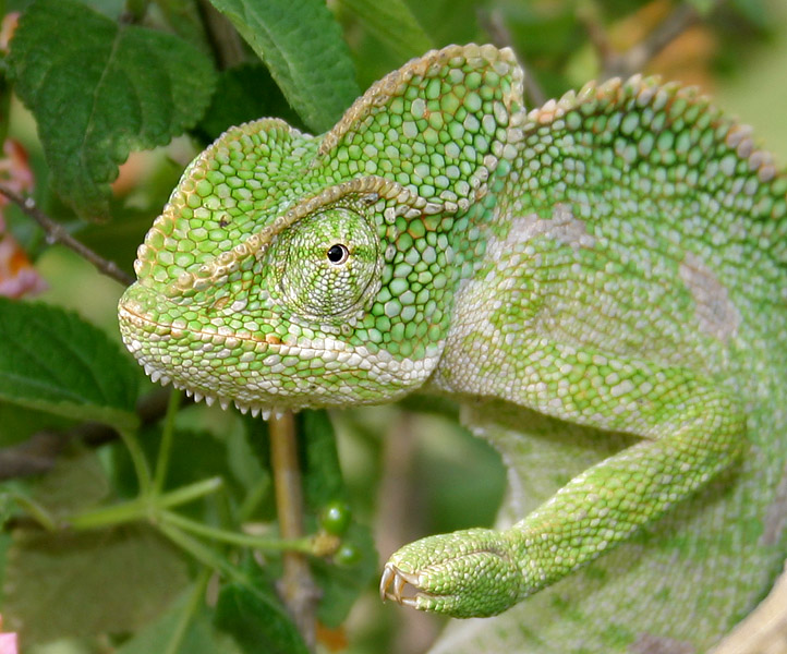 Indian Chameleon or South Asian Chamaeleon Chamaeleo zeylanicus in Keesara, Rangareddy district, Andhra Pradesh, India.